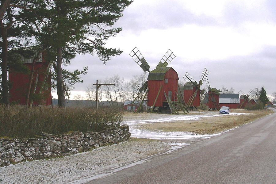 Five of the post mills in Störlinge village, Gärdslösa, Öland, Sweden.